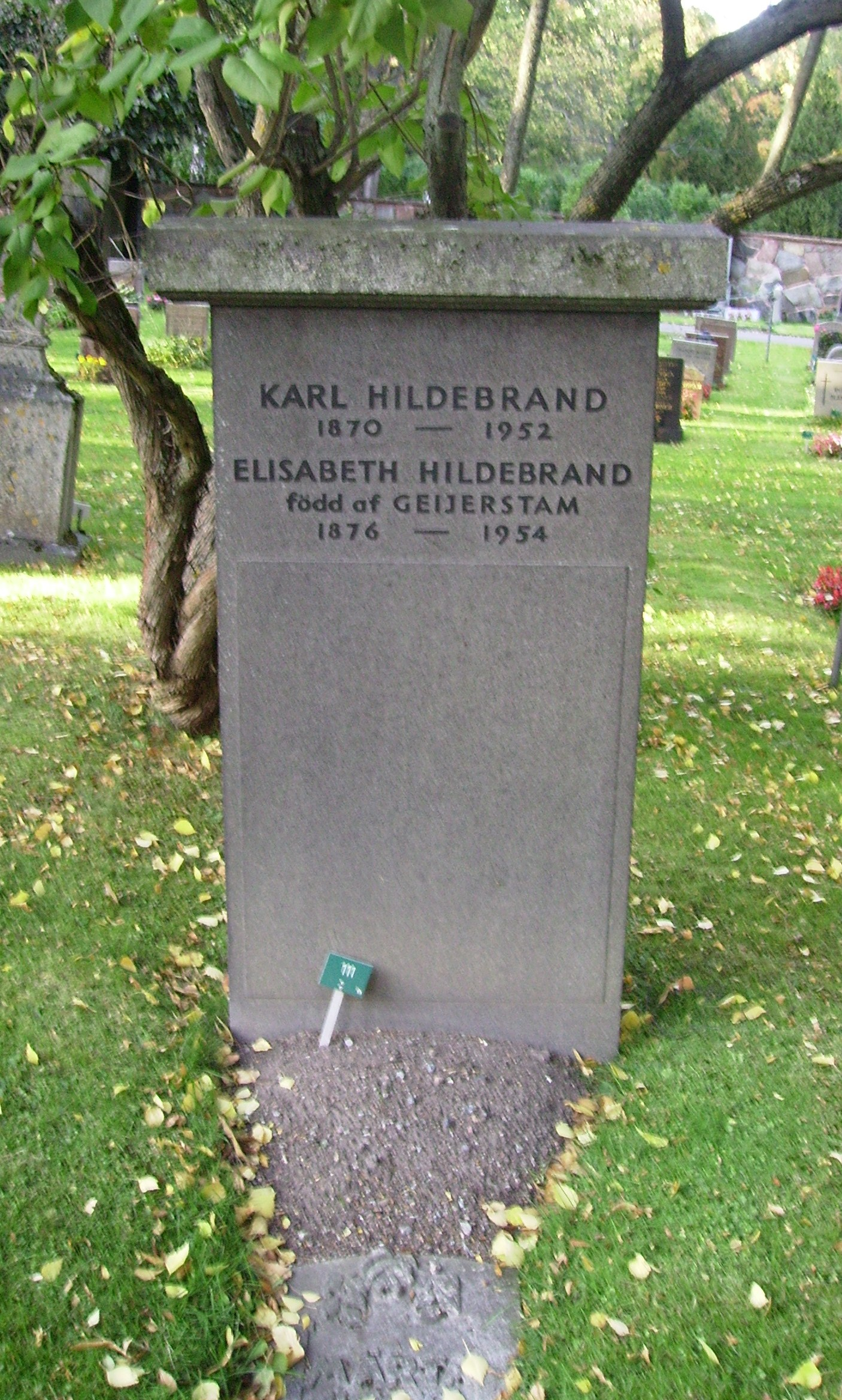 Picture of Karl Hildebrand's grave at Solna kyrkogård